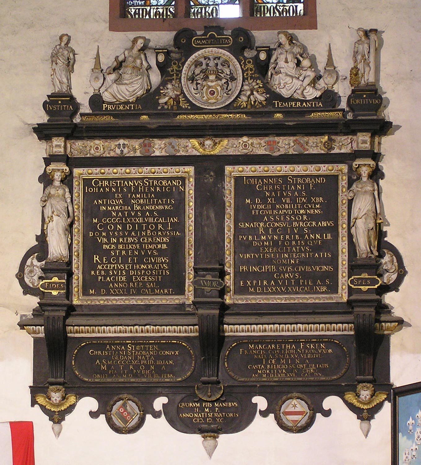 Toruń, St. Mary's church, epitaph of the Stroband family.